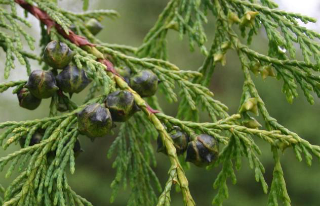 Nootka Cypress from wiki Billede:Chamaecyparis-nootkatensis.JPG by User:Sten